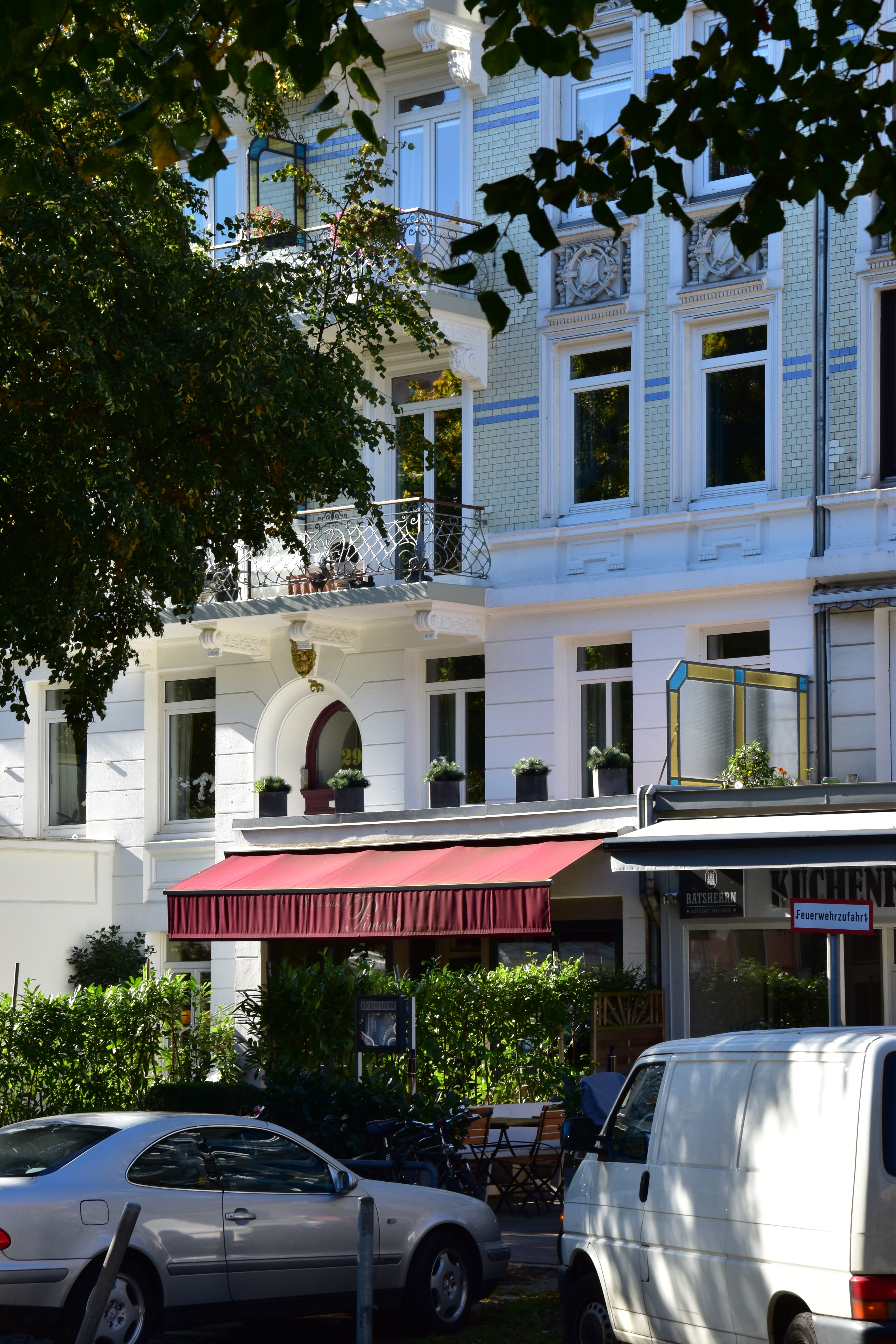 The Piment restaurant at Lehmweg 29, Hamburg-Hoheluft-Ost. It is owned and operated by Maroccan-German chef Wahabi Nouri and has carried a Michelin star since the year 2001.